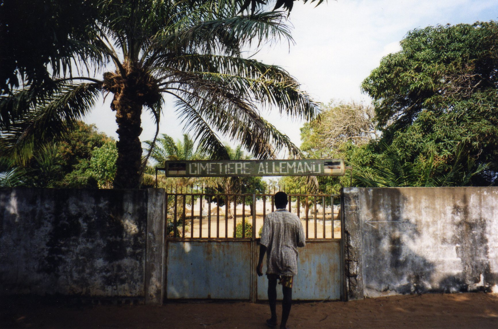 German graveyard in Aného, Togo